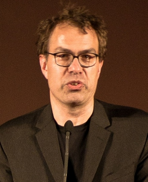 Vincent Cassel, Joséphine Japy & Dominik Moll